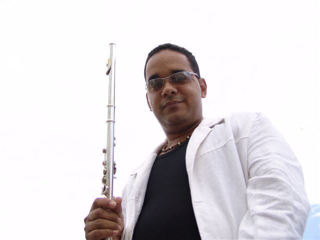 Orlando Valle "Maraca"